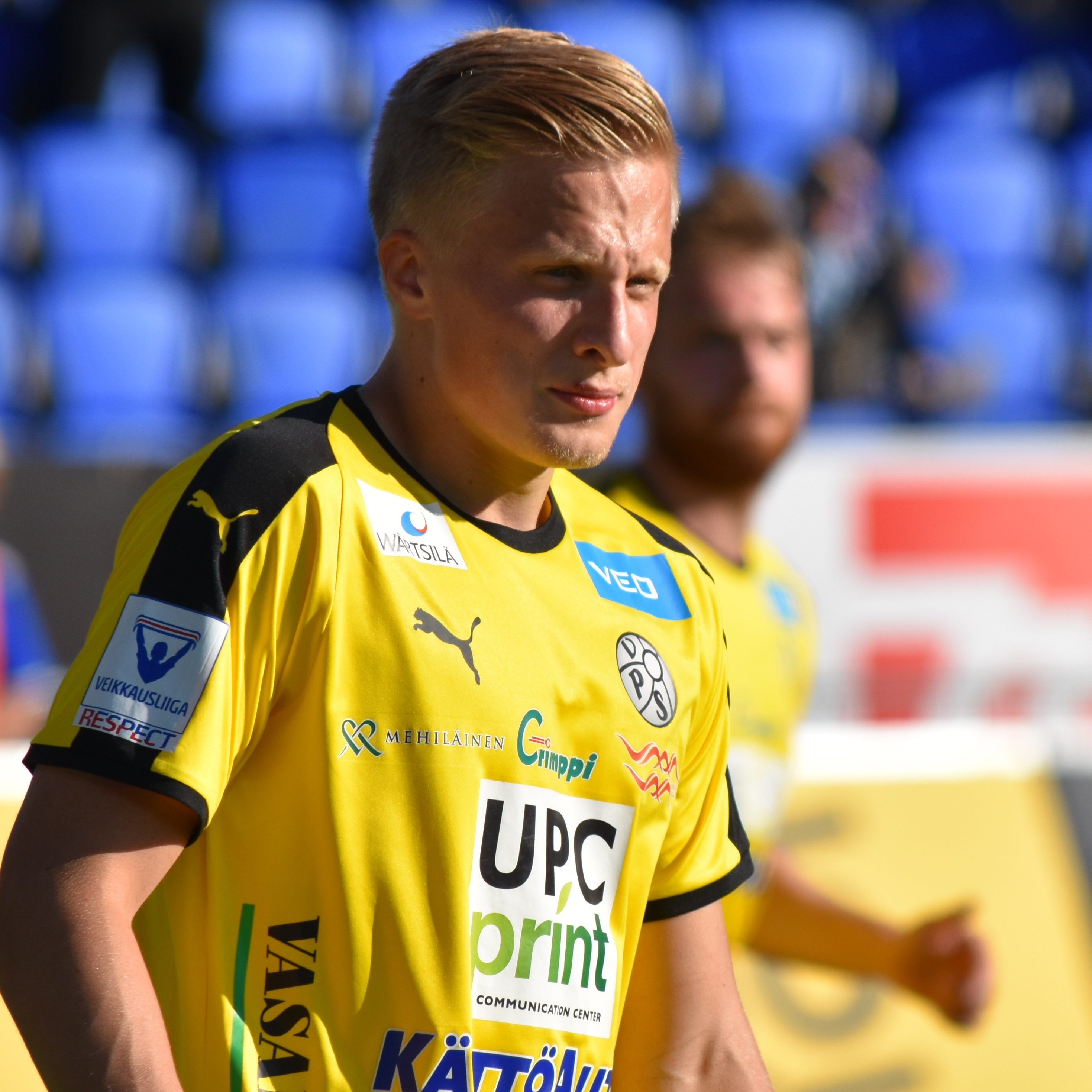 Association football player Hindrek Ojamaa (VPS)